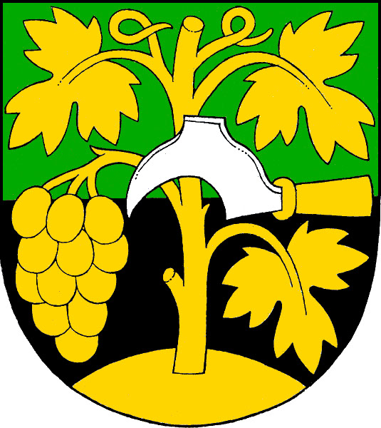 Municipal coat of arms of Oslavany town, Brno-Country District, Czech Republic.